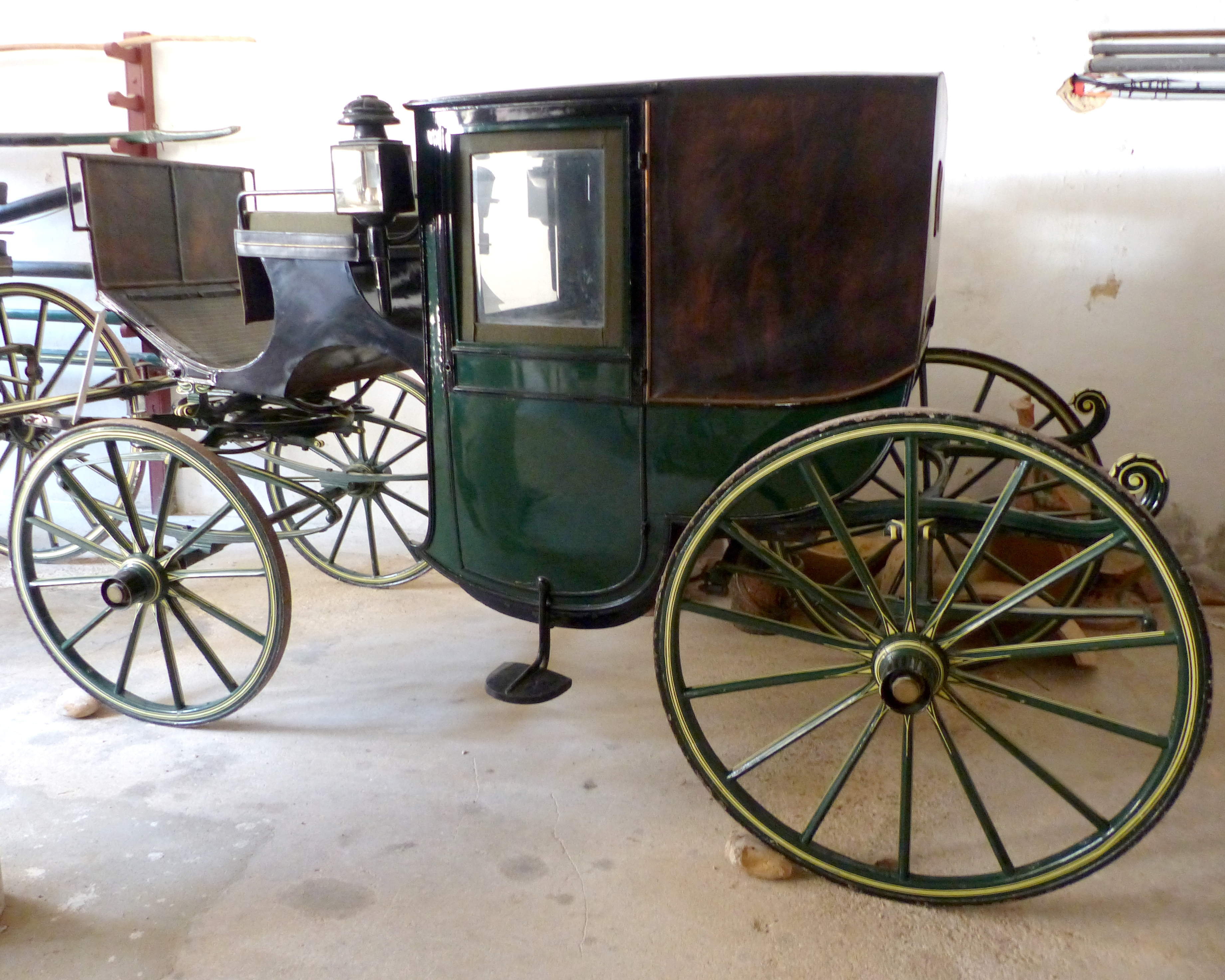 Saint-Gilles (Gard, Occitanie, France), domain of Espeyran, one of the five surviving horse-drawn carriages belonging to the Sabatier family of Espeyran: elegant small urban coupe carriage.